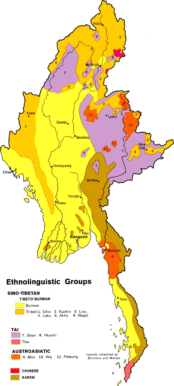 Ethnolinguistic map of Myanmar found [1] Note that name changes have occured since 1972, including: Ethnic groups: Burman → Bamar Karen → Kayin Place names: Bassein → Pathein Keng Tung → Kyaingtong Moulmein → Mawlamyaing Pegu → Bago Prome → Pyay/Pyi Rangoon → Yangon Tavoy → Dawei Toungoo → Taungoo